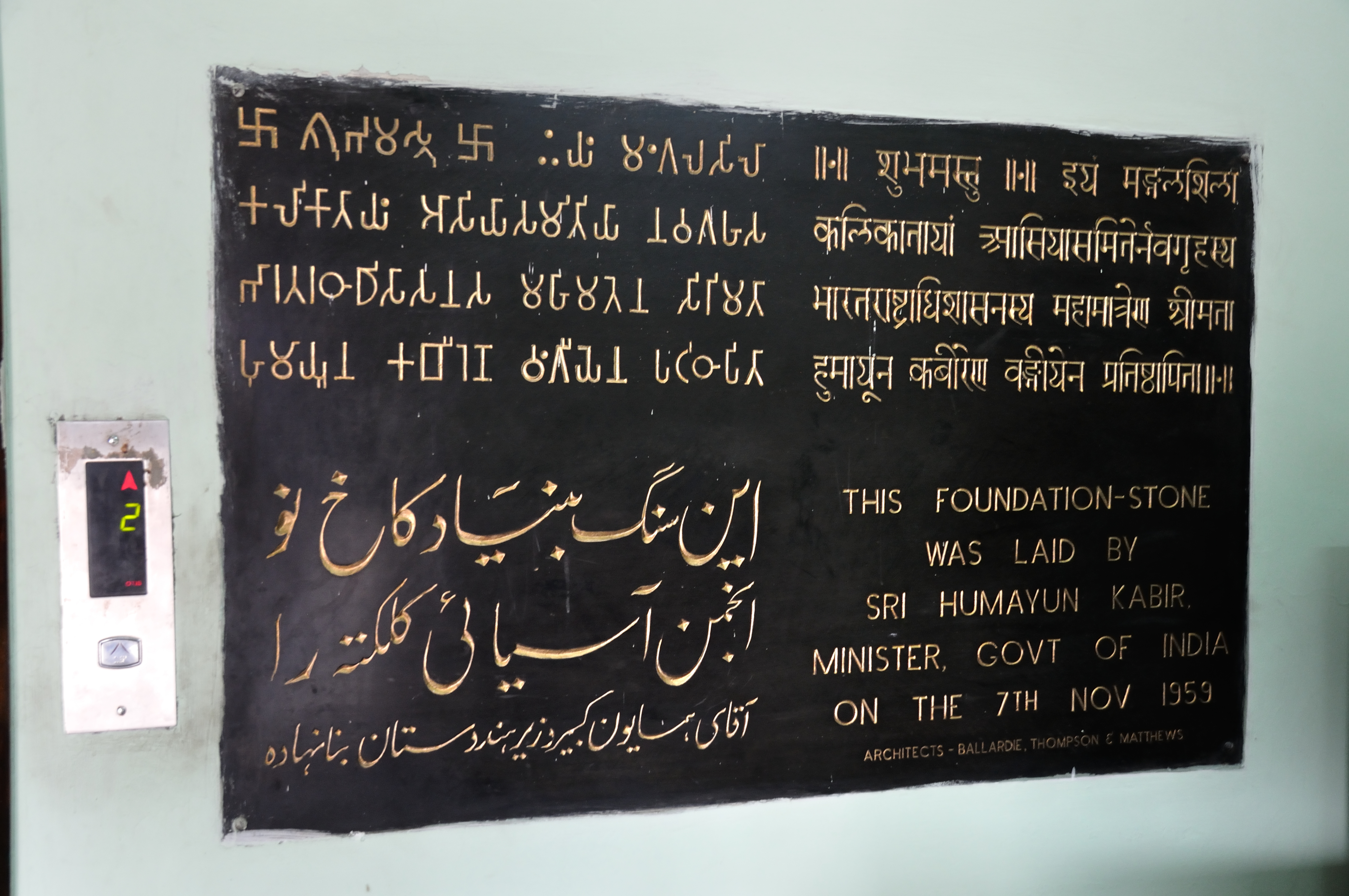 Photographed in Kolkata.